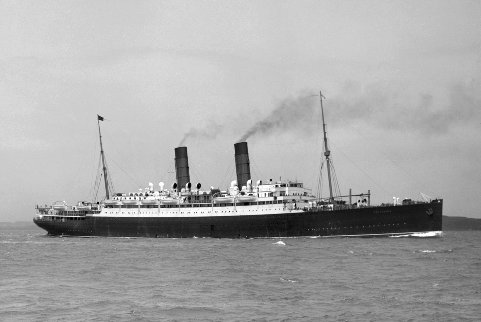 The SS Franconia passing Castle Island in Boston Harbor, between 1910 and 1916